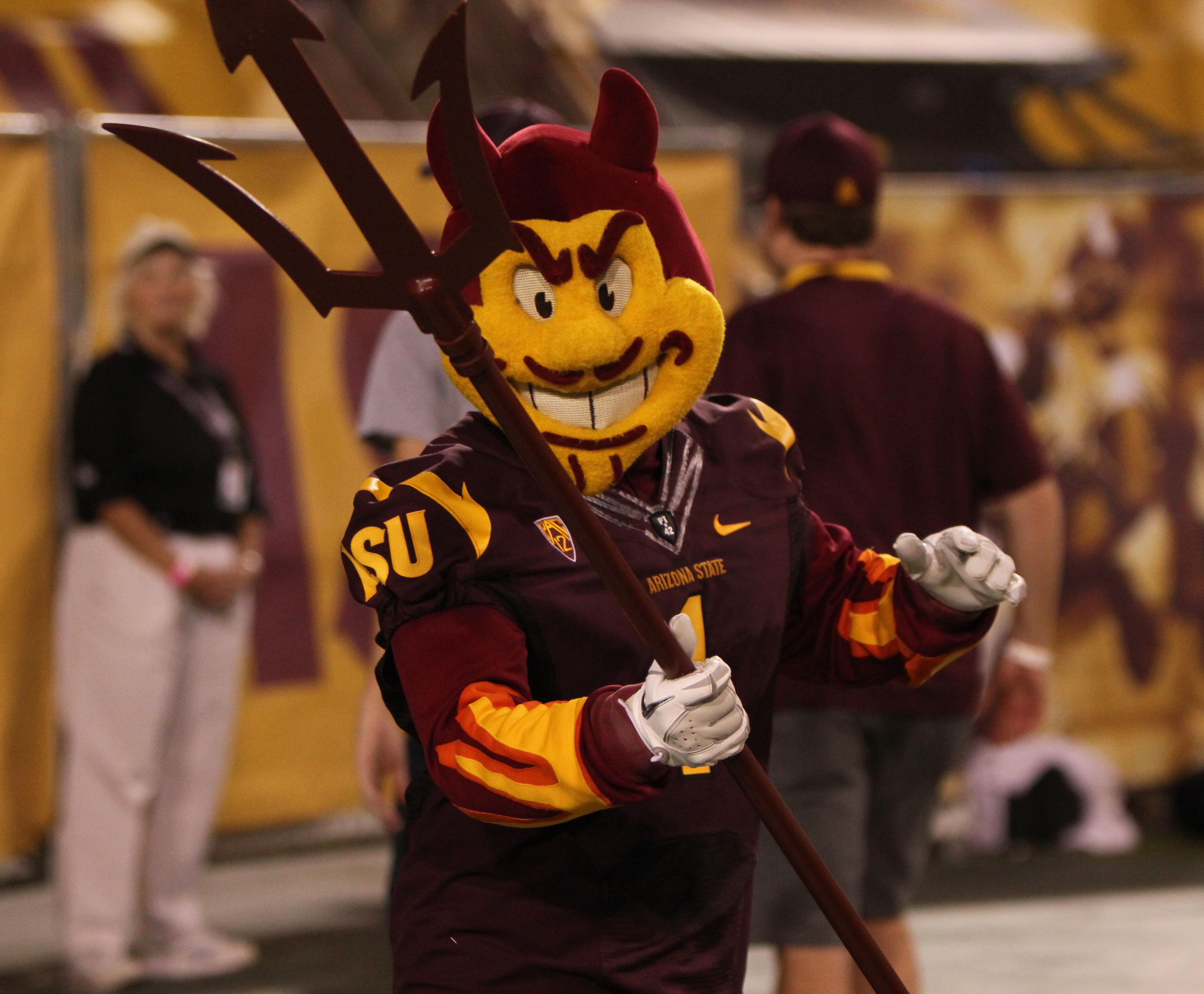 Sparky, the Arizona State Sun Devils mascot. Taken by James Santelli, Neon Tommy. September 24, 2011.